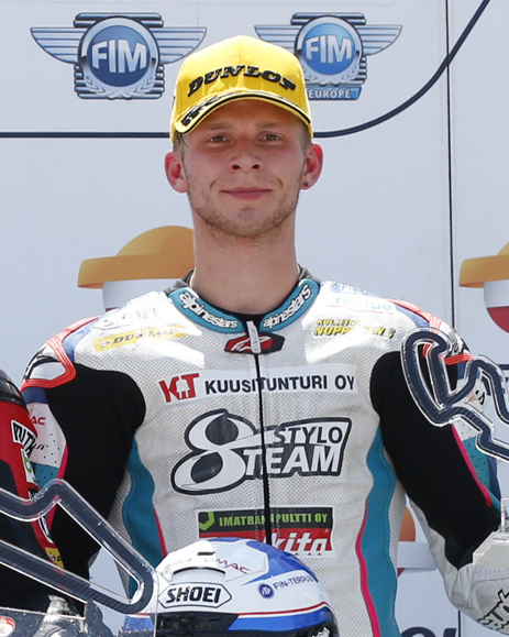 Niki Tuuli on the podium of the 2019 CEV Moto2 Aragon race 2.